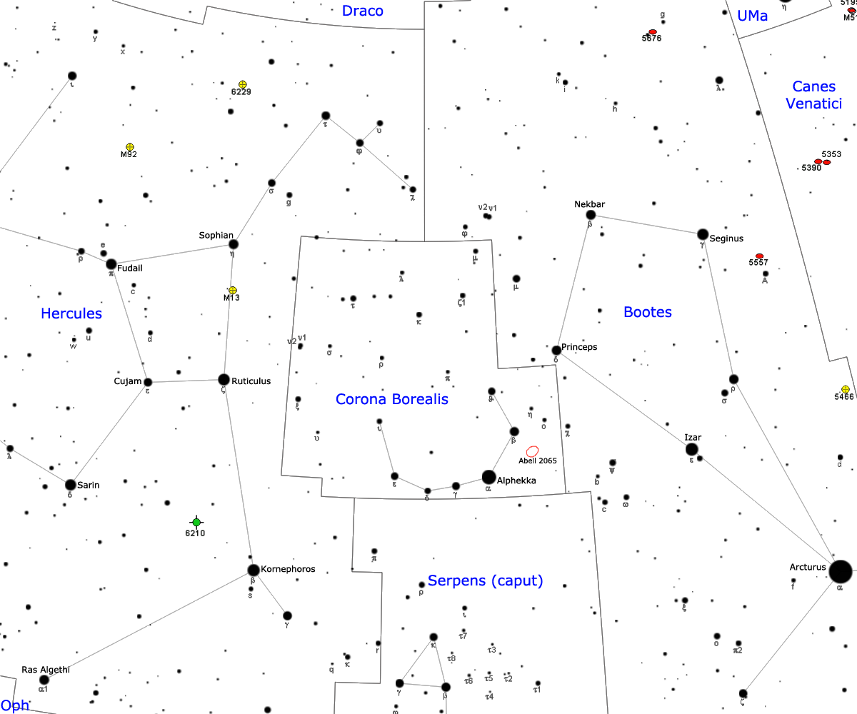 Map of Corona Borealis